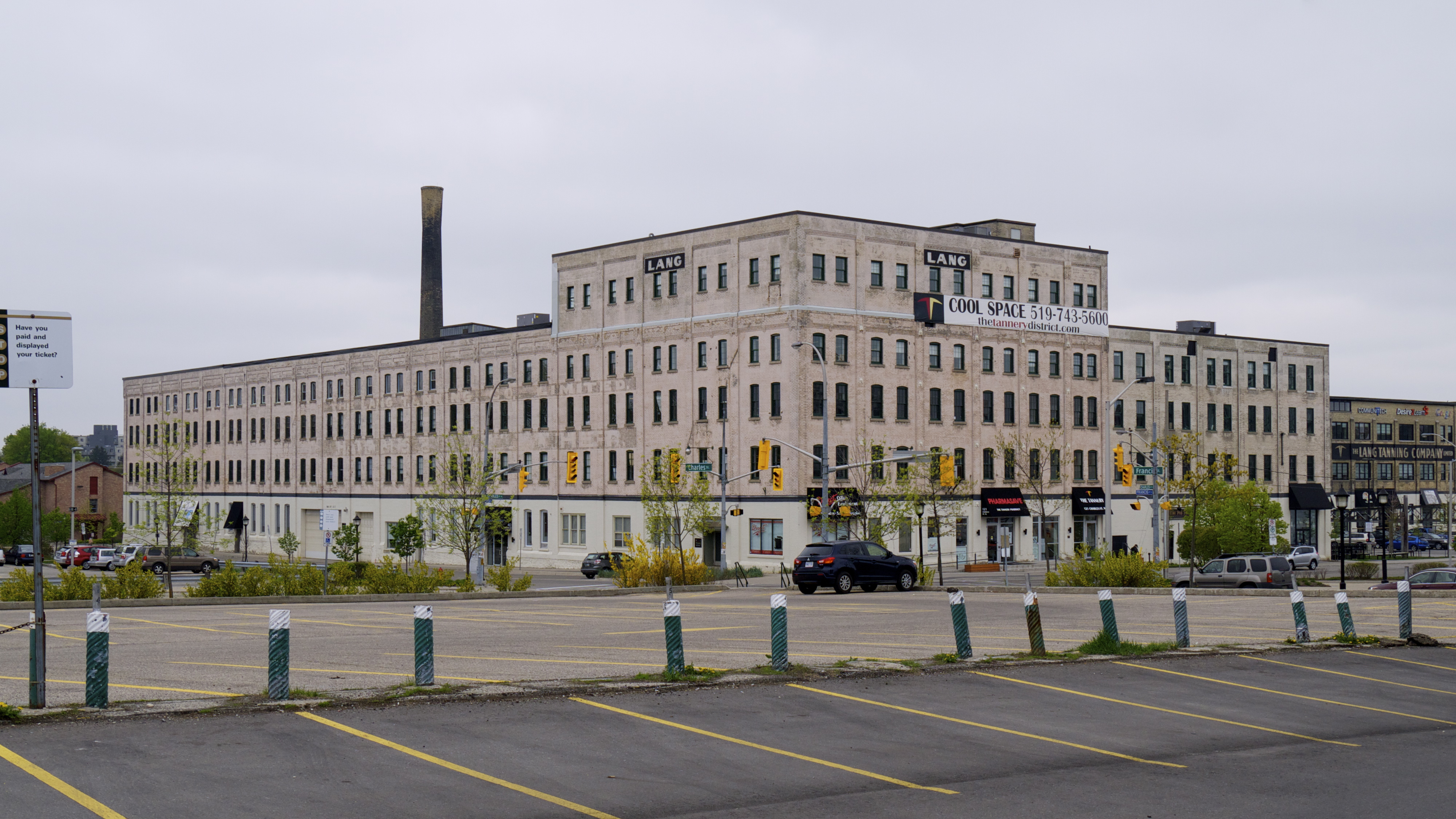 Tannery building in Kitchener, Ontario.